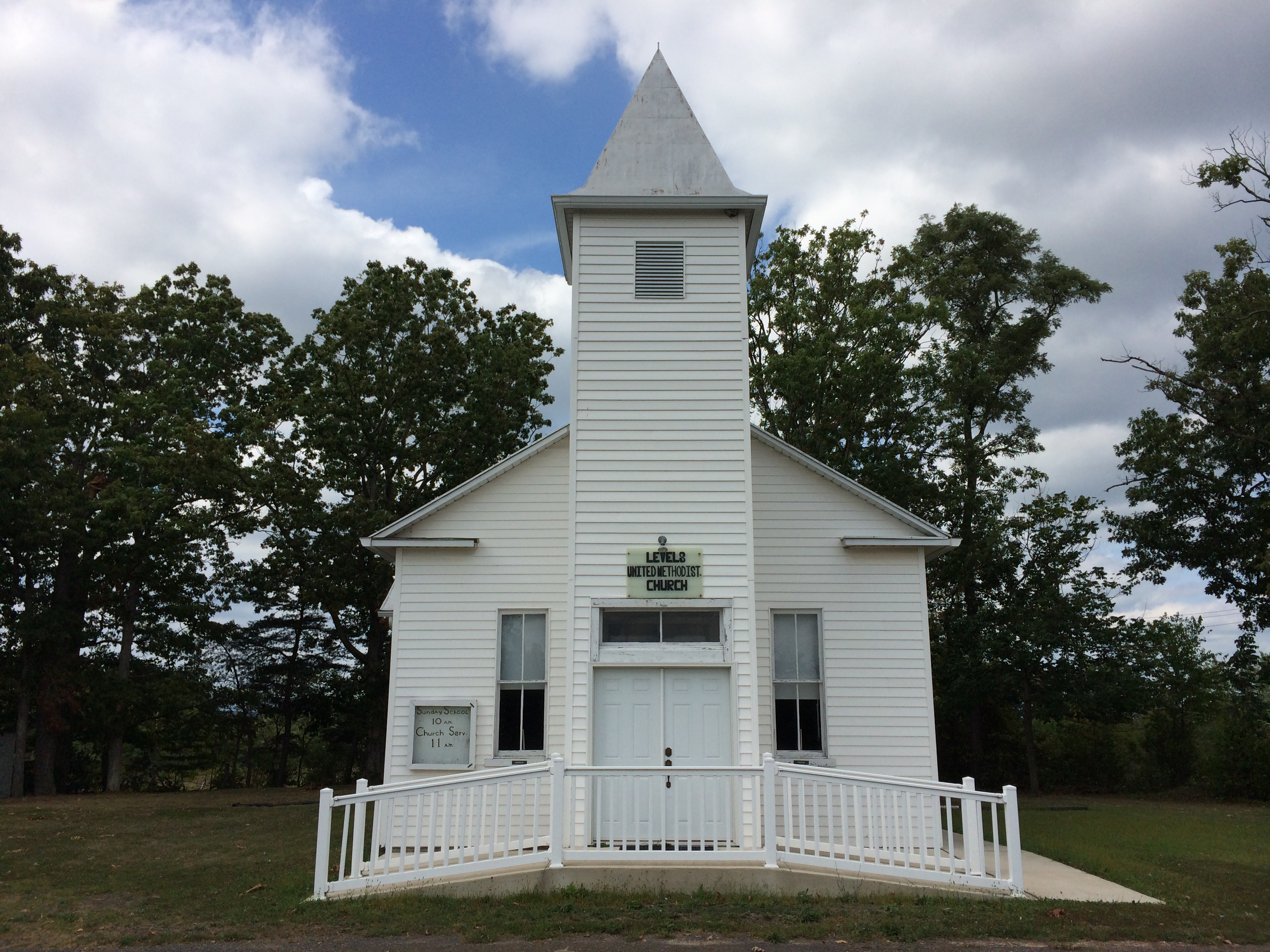 Levels United Methodist Church is a United Methodist church along County Route 5 (Jersey Mountain Road) in the unincorporated community of Levels in Hampshire County, West Virginia, United States. Photographed by Justin A. Wilcox of Washington, D.C.